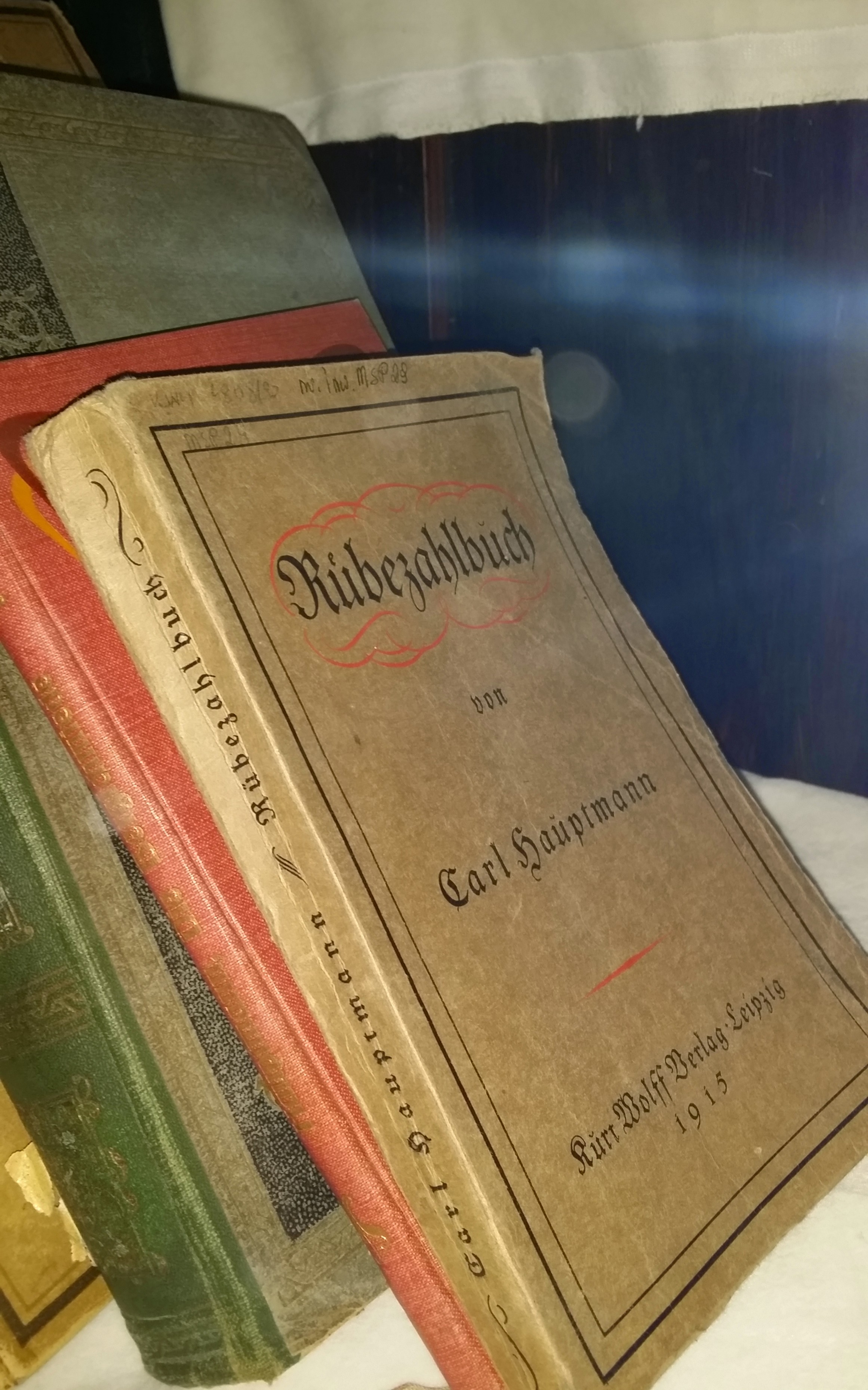 The first German edition of the "Rübezahlbuch" of Carl Hauptmann, 1915. A copy is in the Museum in Szklarska Poreba (Poland).